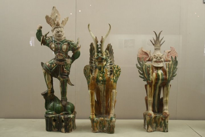 Chinese sancai-glazed pottery statues of tomb guardians, from the Tang Dynasty (618-907 AD) of medieval China.